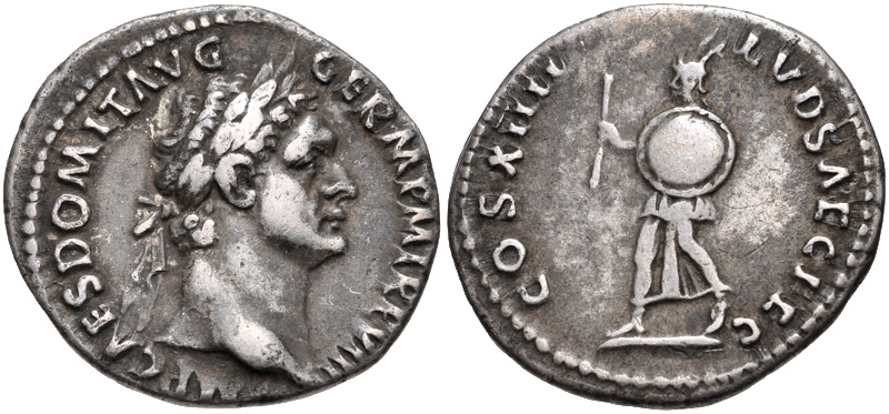 Domitian. AD 81-96. AR Denarius (19mm, 3.29 g, 6h). Rome mint. Struck AD 88. Laureate head right Herald advancing left, wearing feathered cap and holding wand and shield. RIC II 596; RSC 76/77. VF, toned. From the J.S. Wagner Collection